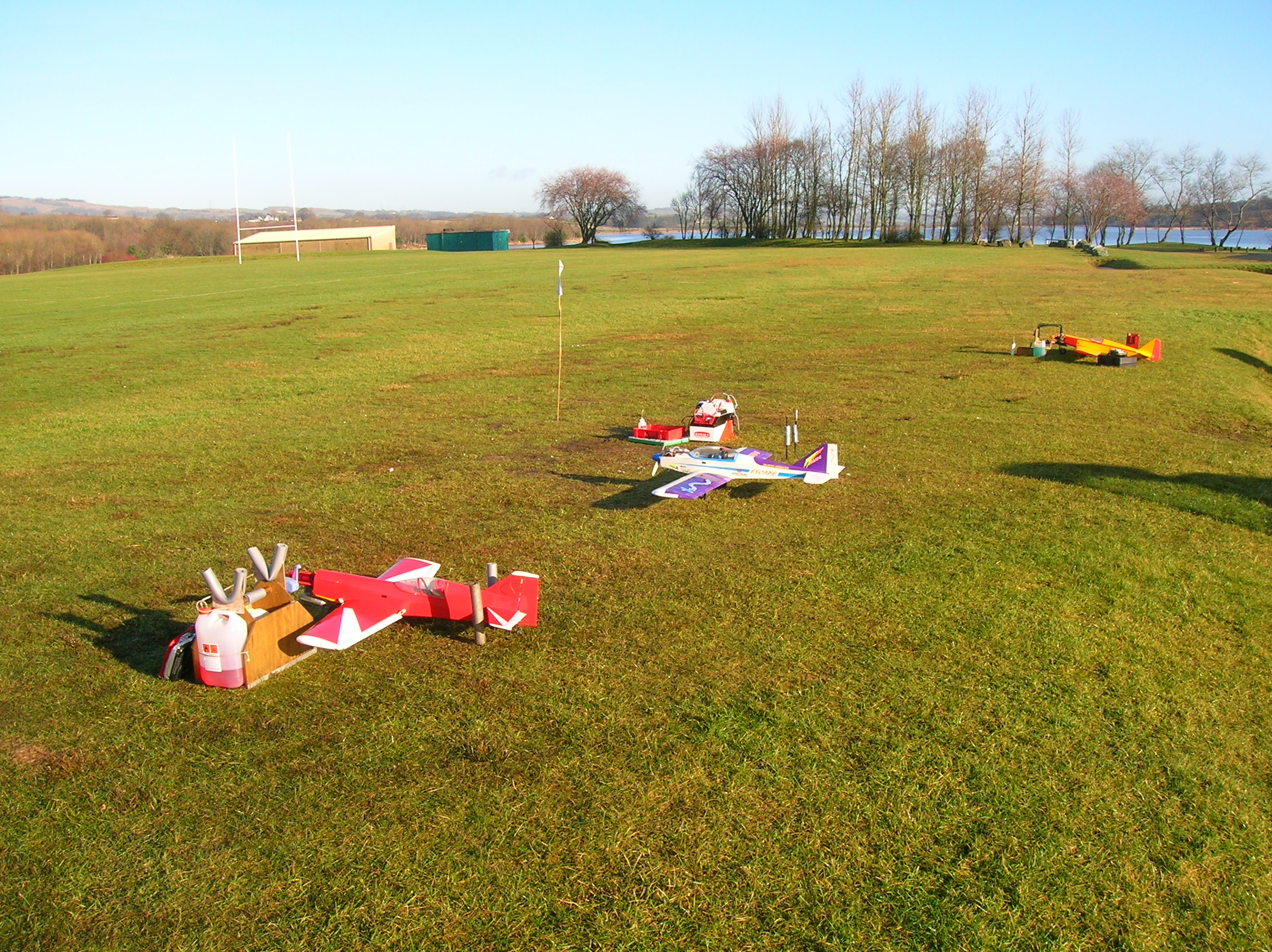 Model aircraft at Kilbirnie lochshore, North Ayrshire, Scotland.